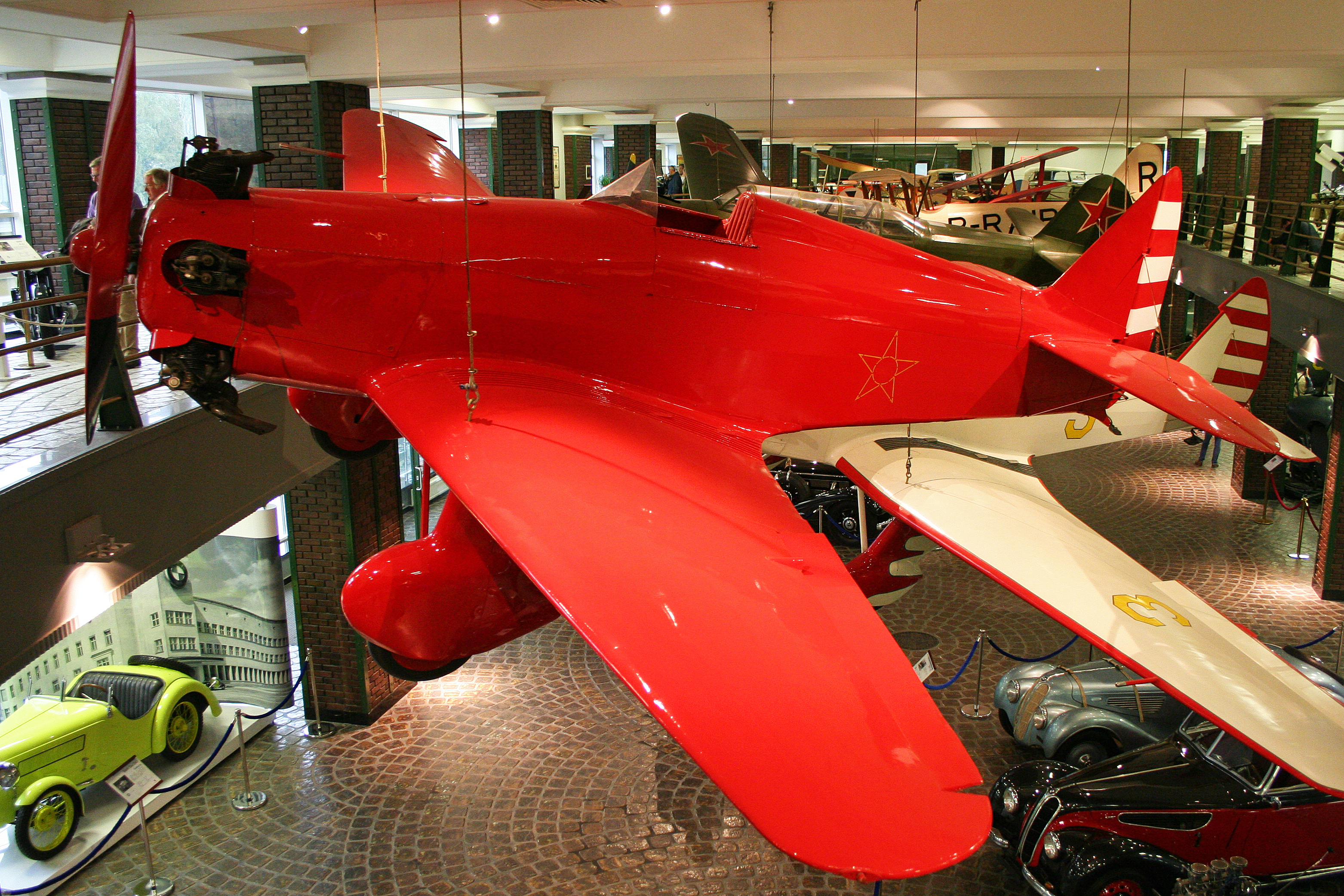 UT-1 was the service designation of the AIR-14. During WW2 the type was mainly used for reconnaissance but some were modified as improvised ground attack aircraft. msn 20. Displayed suspended in the Vadim Zadorozhny Technical Museum, Arkangelskoye, Moscow. Russia. 14-8-2012